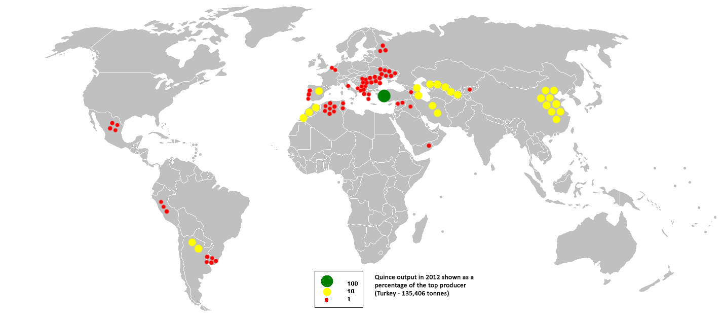 This bubble map shows the global distribution of quince output in 2012 as a percentage of the top producer (Turkey - 135,406 tonnes). This map is consistent with incomplete set of data too as long as the top producer is known. It resolves the accessibility issues faced by colour-coded maps that may not be properly rendered in old computer screens. Data was extracted on 27th February 2015 from FAO.